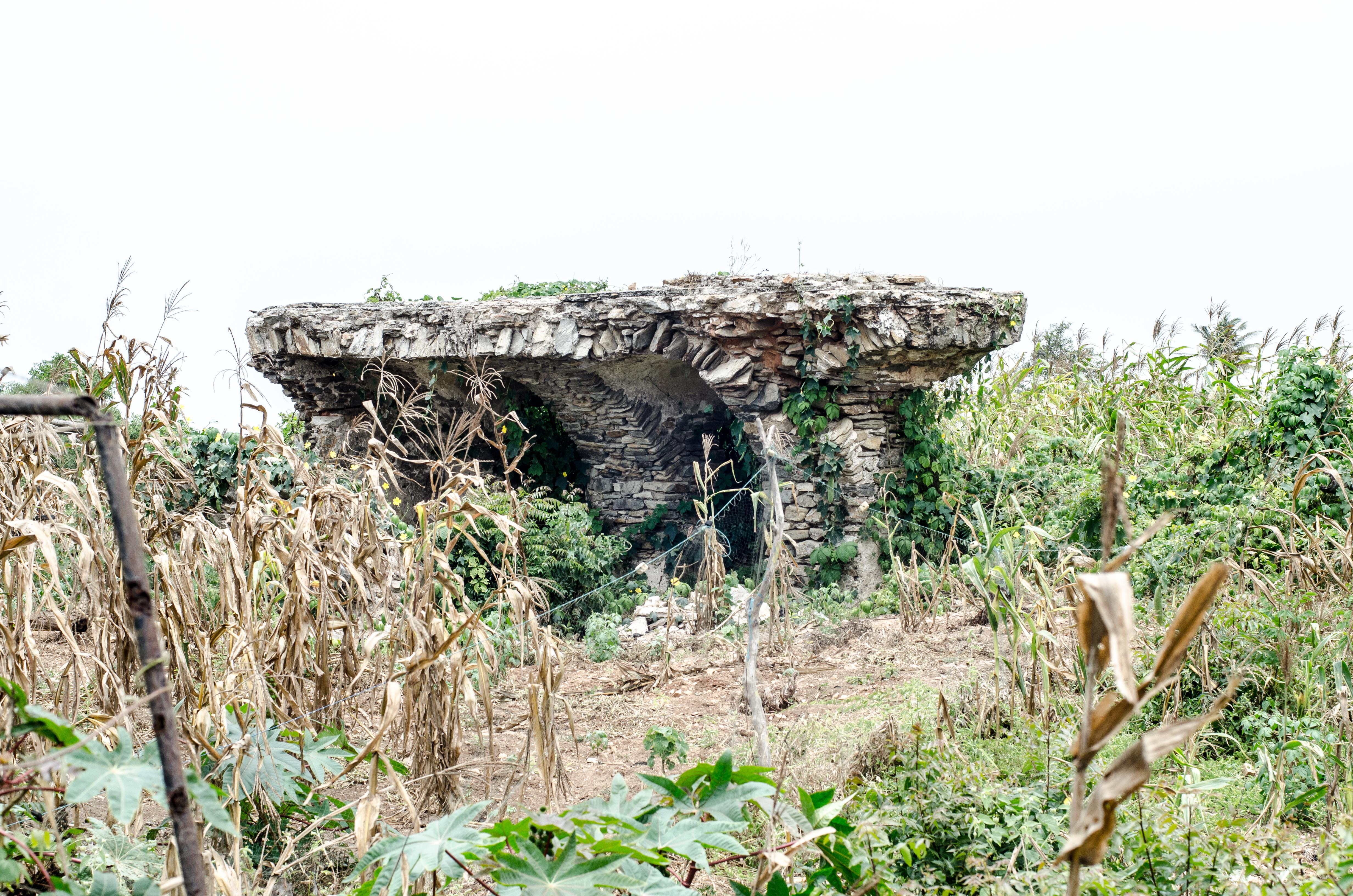 Wiki Love Monument entry for Fort Fredensborg built in 1736 - 42 used as a Fort in those day located in Old-Ningo in the Greater Accra Region of Ghana.